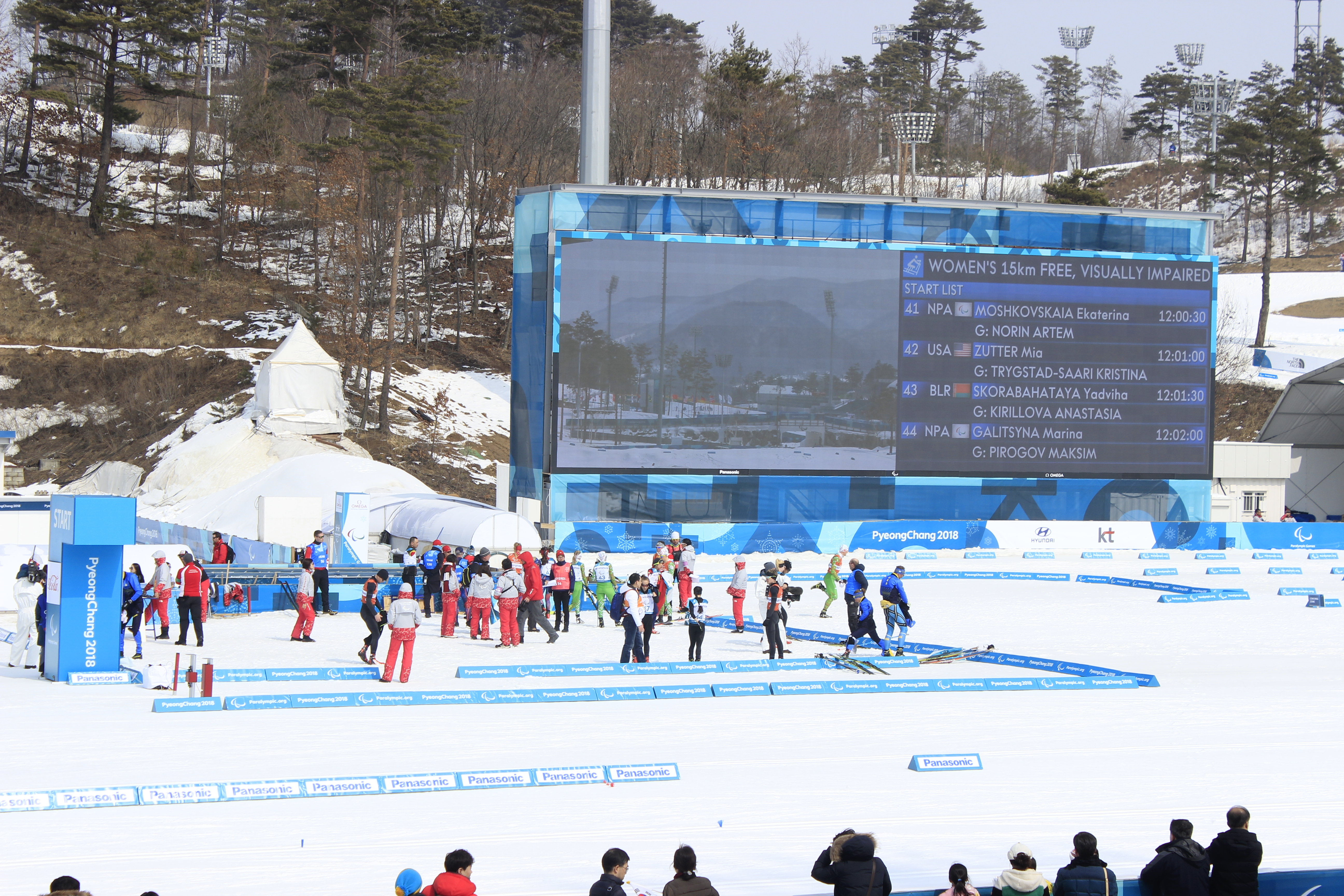 2018 Paralympics Alpensia Biathlon Centre